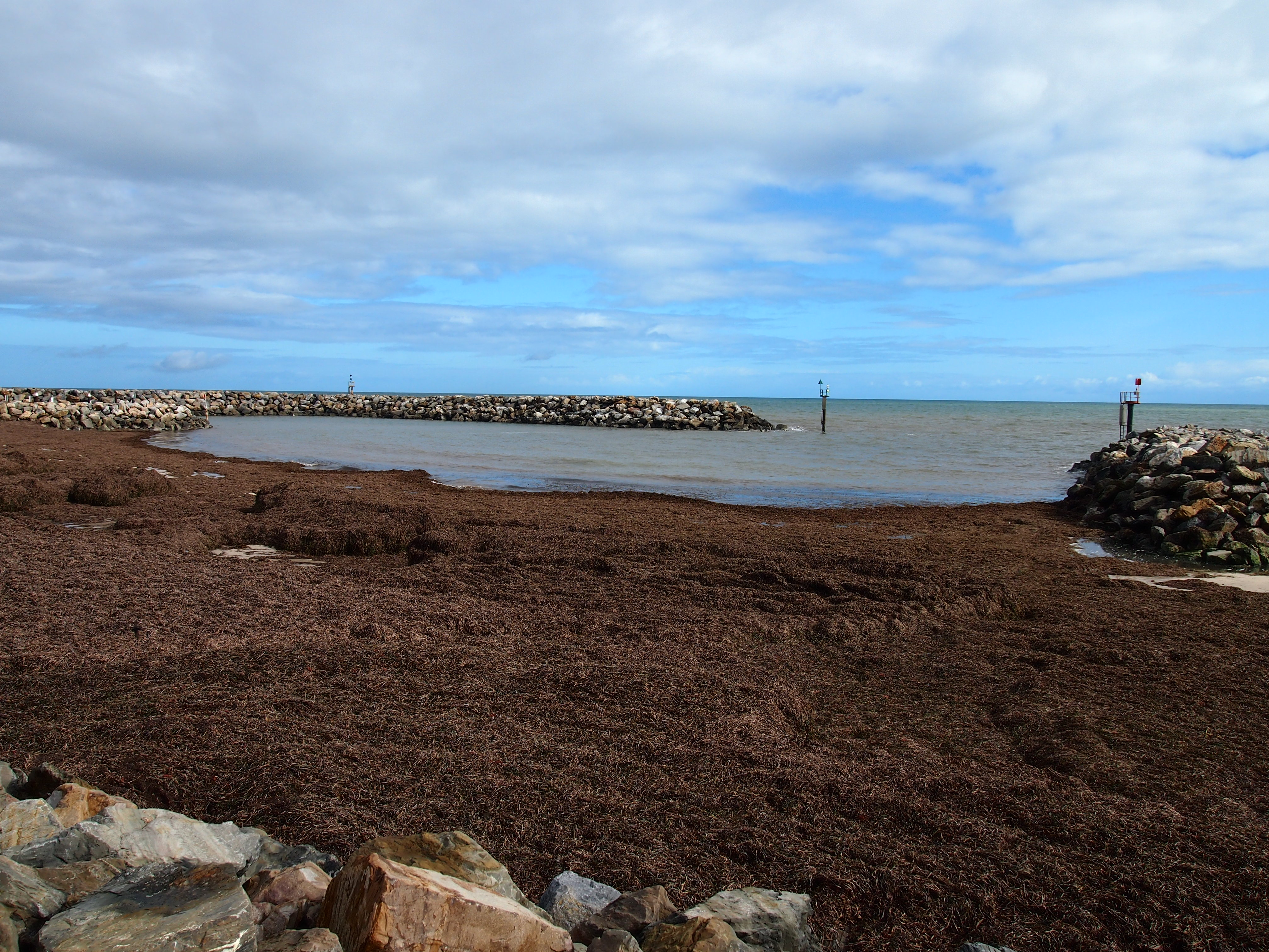 Accumulation of detrital seagrass wrack (Posidonia australis) at the West Beach Boat Harbour, West Beach, South Australia, which occurs each year in winter. Original filename = P6303052.JPG